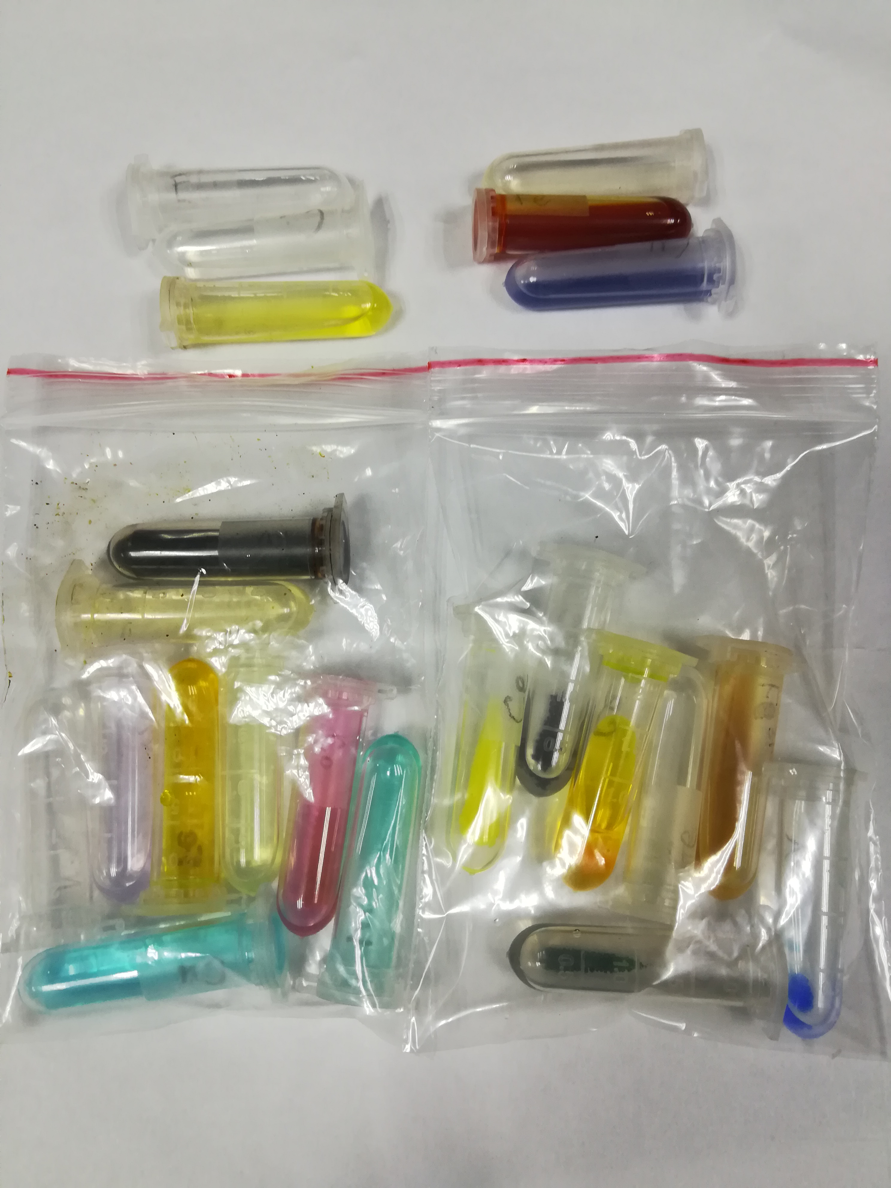 Inorganic salts in CH3CN. Details are shown in the table below.